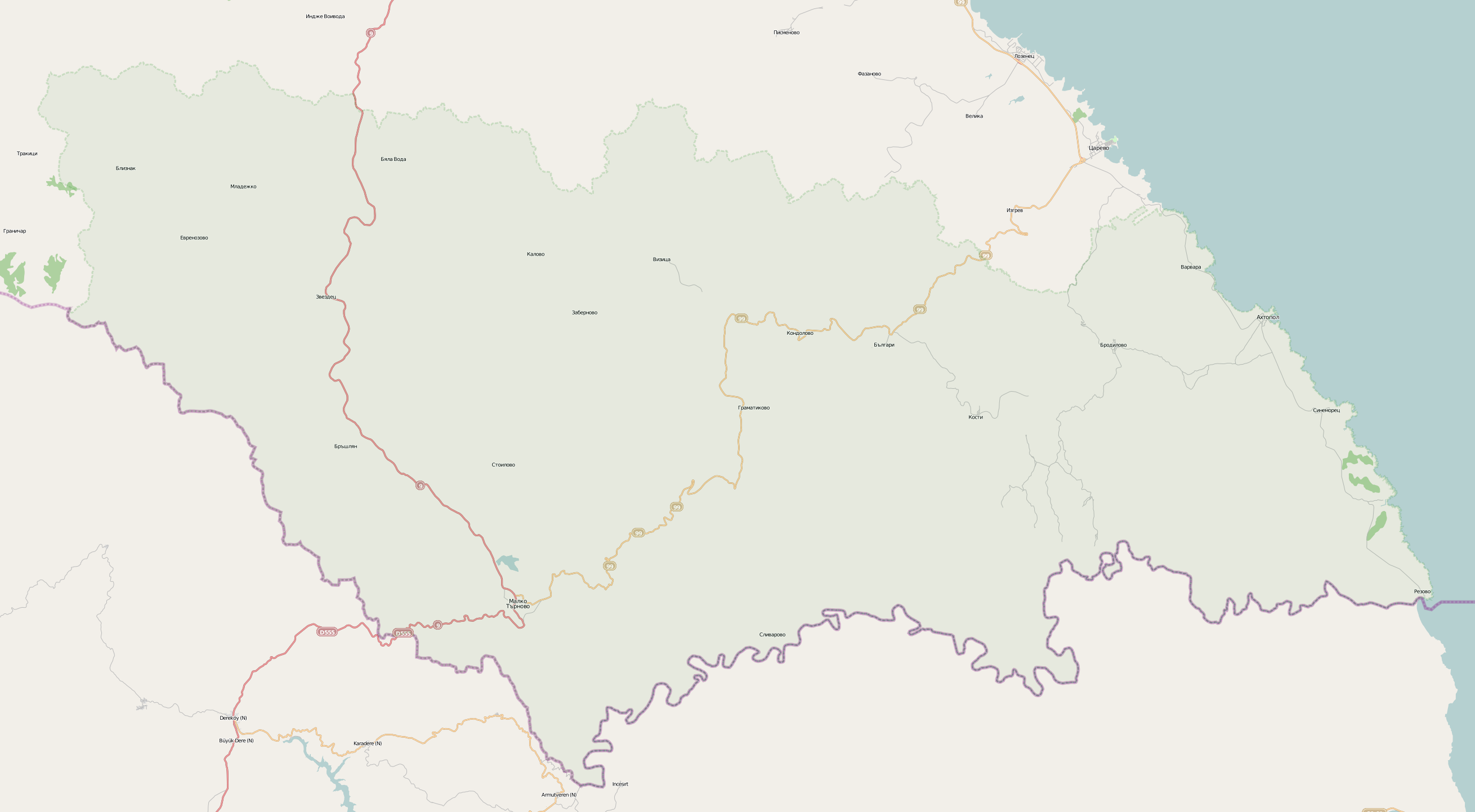 Strandzha Natural Park Borders in Strandzha mountain (Bulgarian: Странджа, also transliterated as Strandja and Stranja; Turkish: Yıldız Dağları or Istranca)